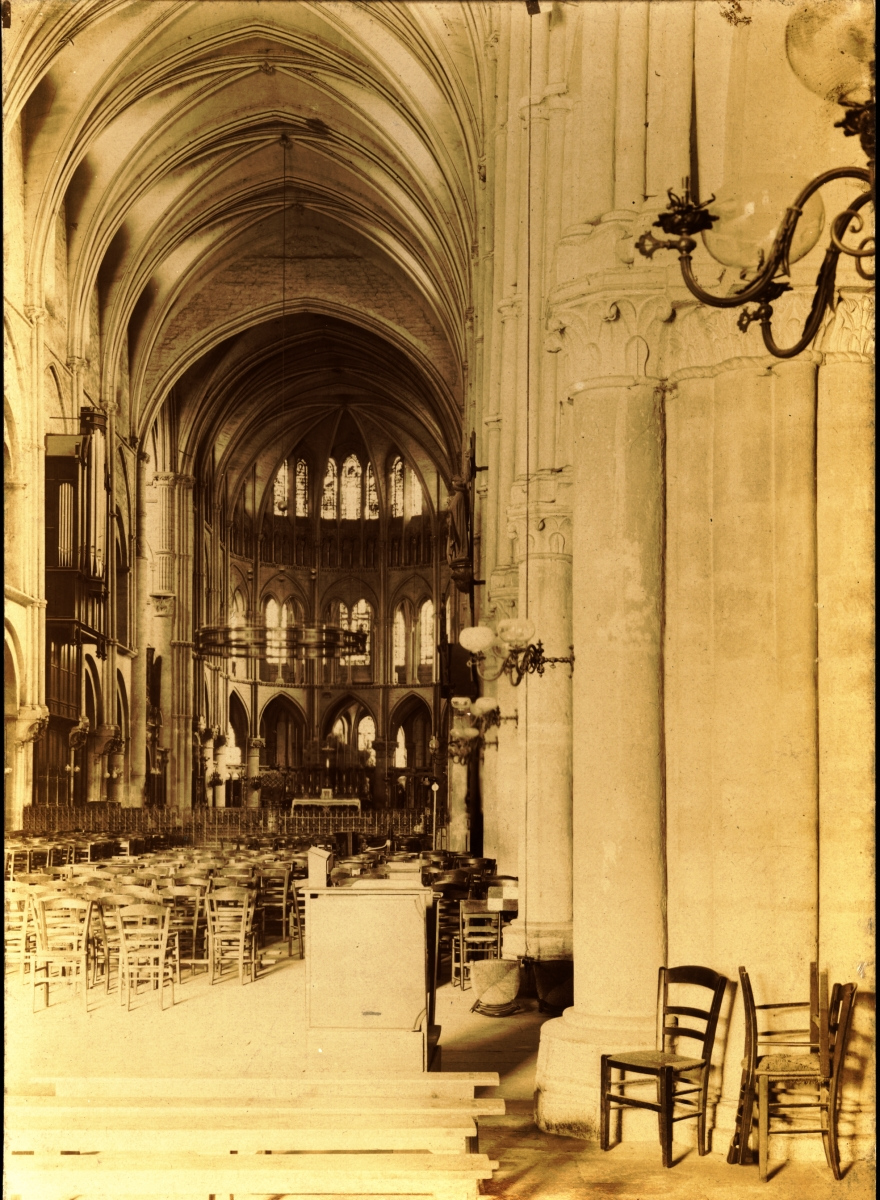 St. Remi, Rheims, France, n.d.. No number. Brooklyn Museum Archives, Goodyear Archival Collection (S03_06_01_010 image 1246). Help us map this image by using Suggestify to suggest a location for it.